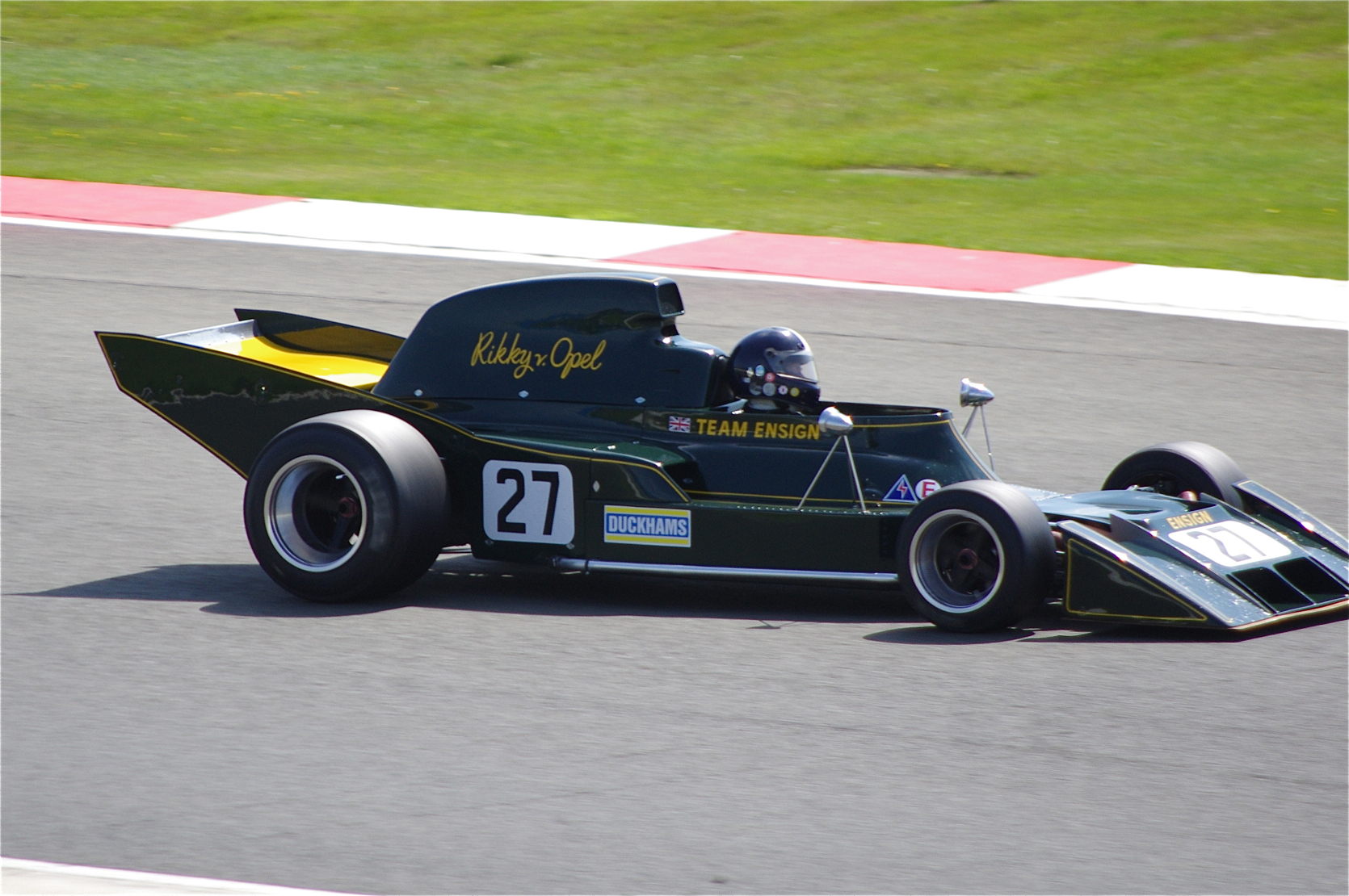 Silverstone Classic, 2012